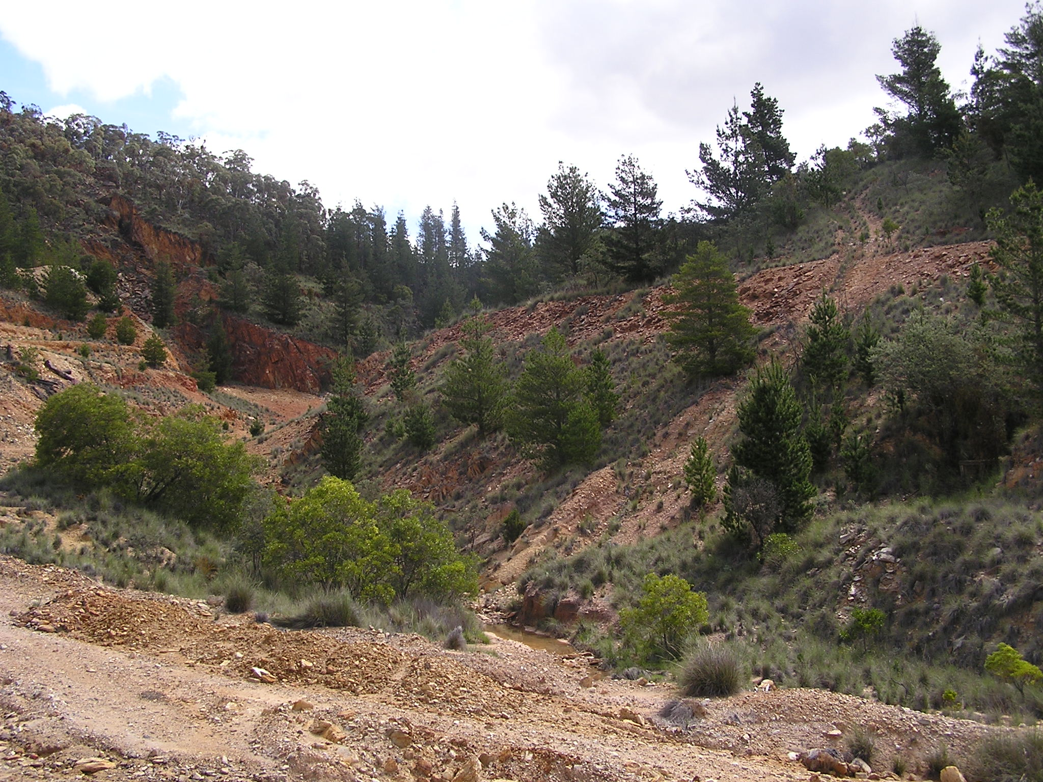 Mining activity remains above Captains Flat, New South Wales with a stream that flows into the Molonglo River, November 2005 Picture taken by AYArktos